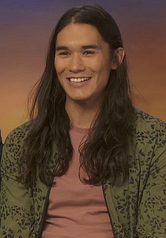 Booboo Stewart in 2017